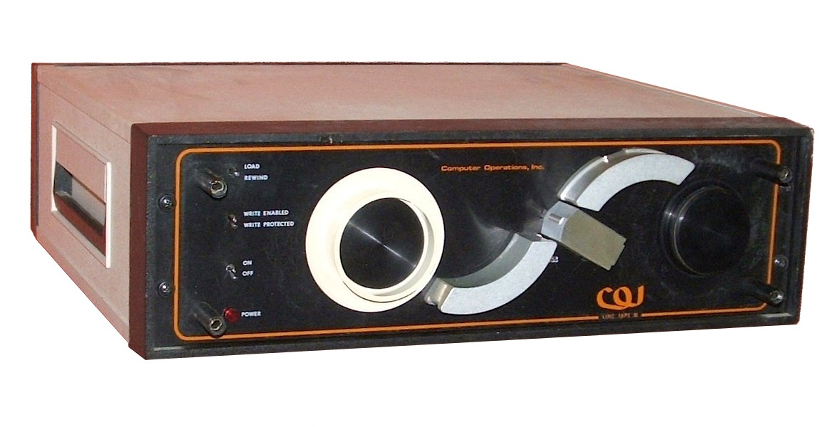 Computer Operations Inc. Linc Tape II tape drive (S.N. 2653), a DECtape clone probably made in late 1978 (estimated from quality control dates on components), mounted in an Optima 3U case made by Scientific Atlanta (U.S. Patent D203,826). The Optima brand was later sold to Elma Electronic.